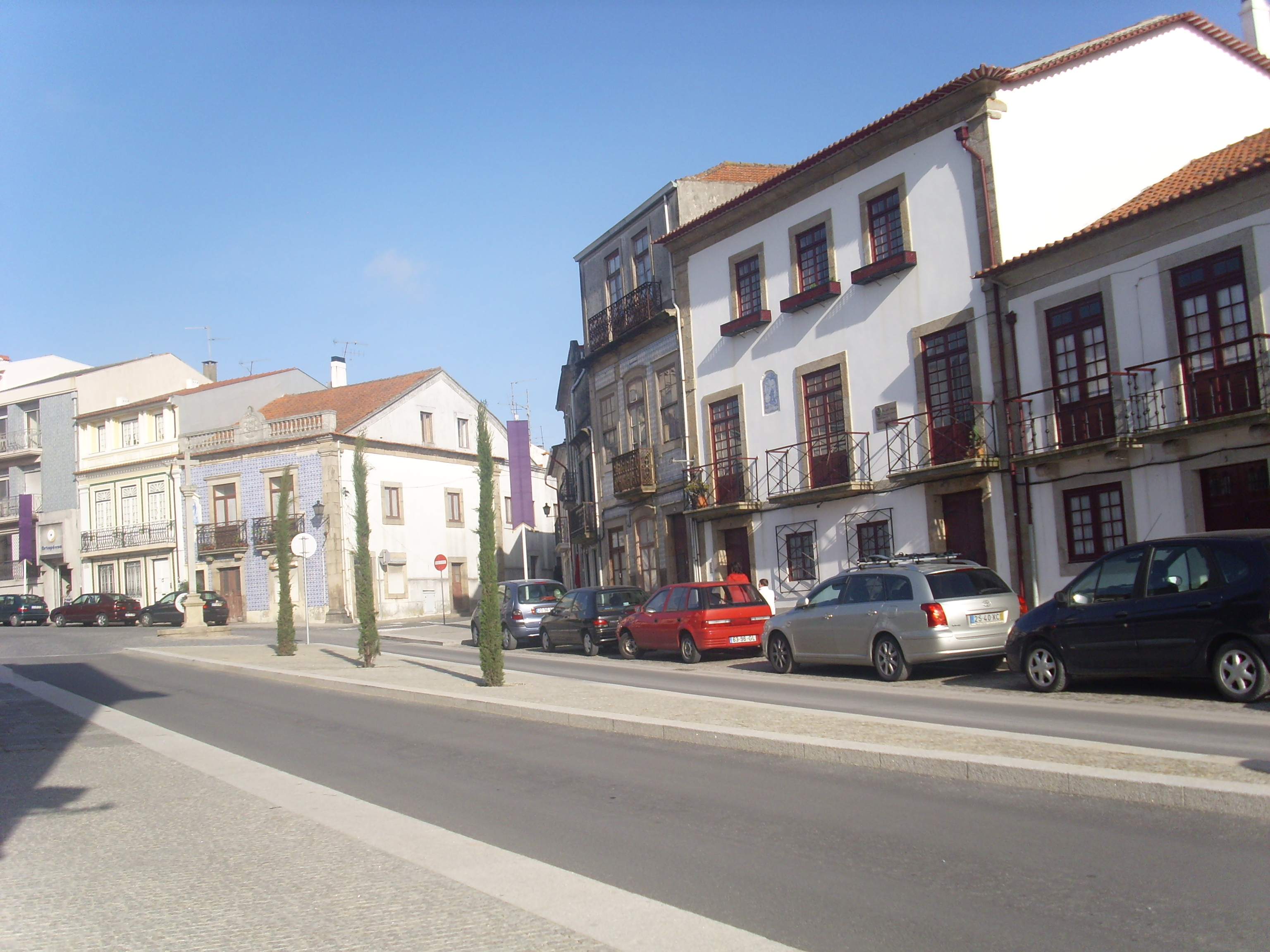 Eça de Queirós Square in Matriz district